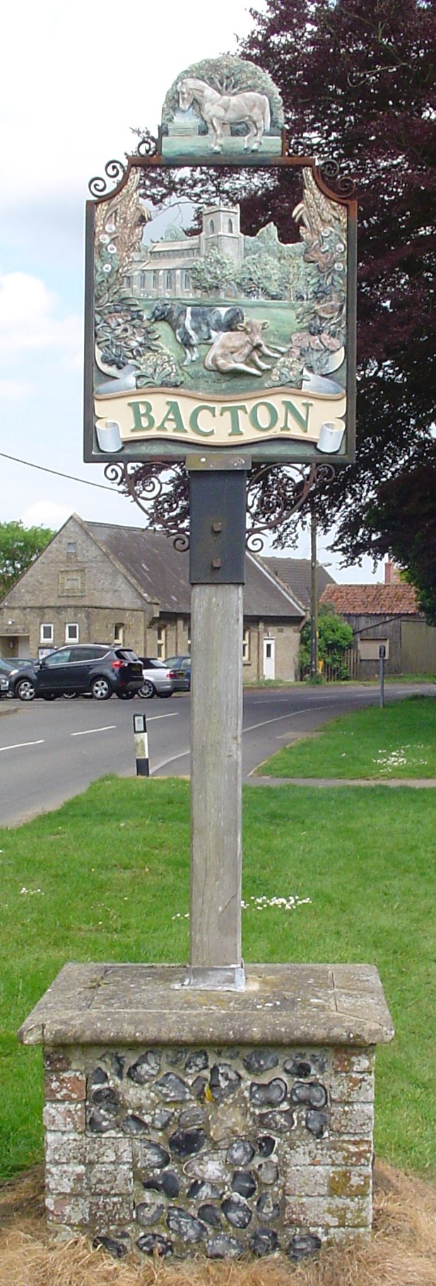 Signpost in Bacton, Suffolk